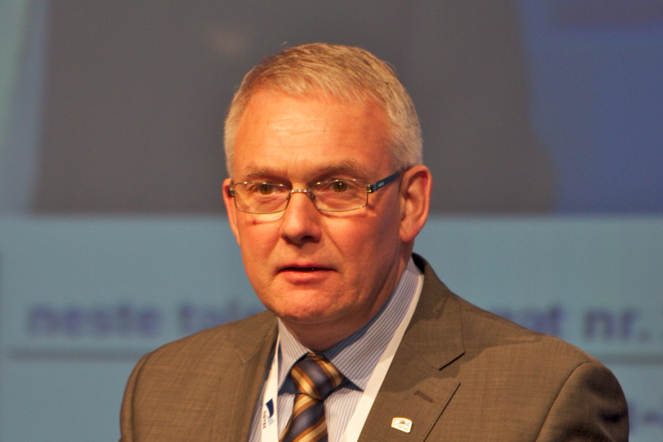 Jonni Solsvik, Norwegian conservative politician.